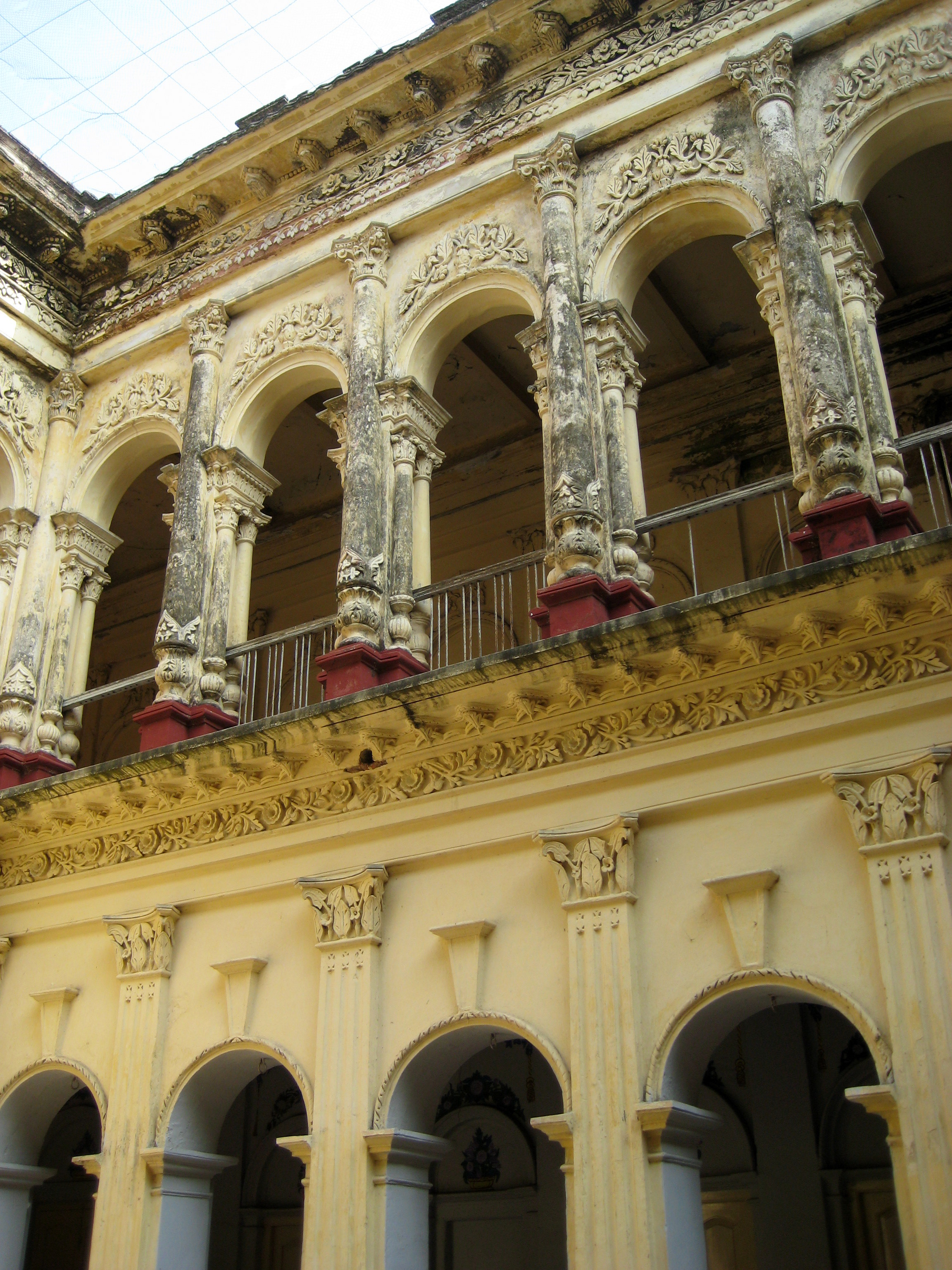 Sonargaon, One of the oldest capital of Bangla. It is located near the current-day city of Narayanganj, Bangladesh.